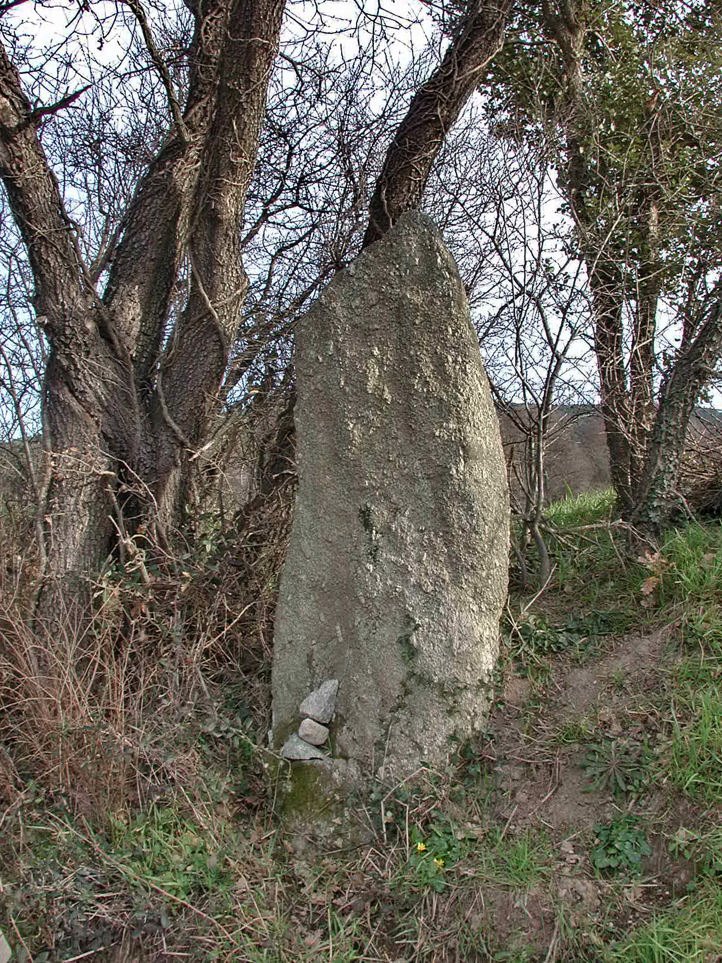 Menhir in Pra-Bourdin, Le Plan de la Tour, Var